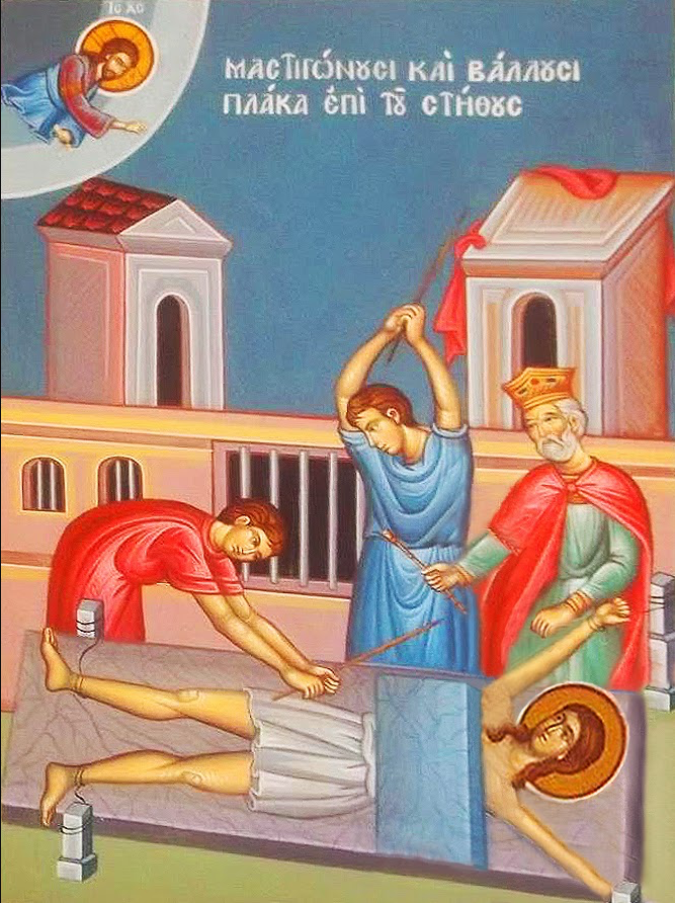 Paraskevi of Rome is whipped